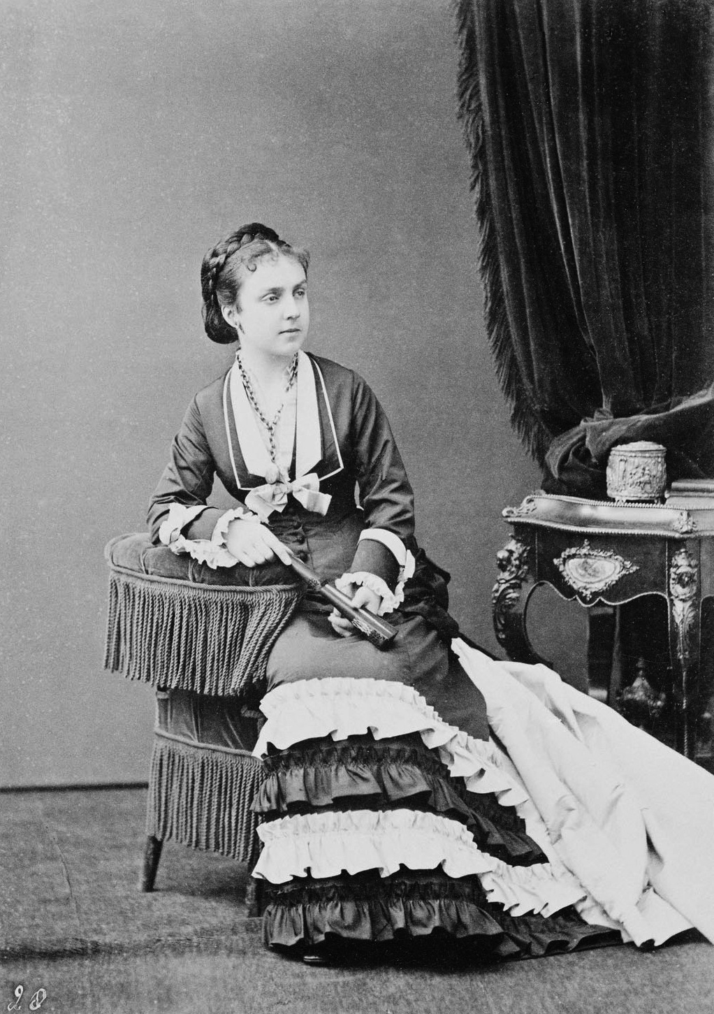 Mercedes, Queen of Spain